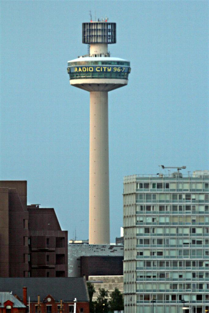 Radio City Tower, St John's Beacon, Liverpool